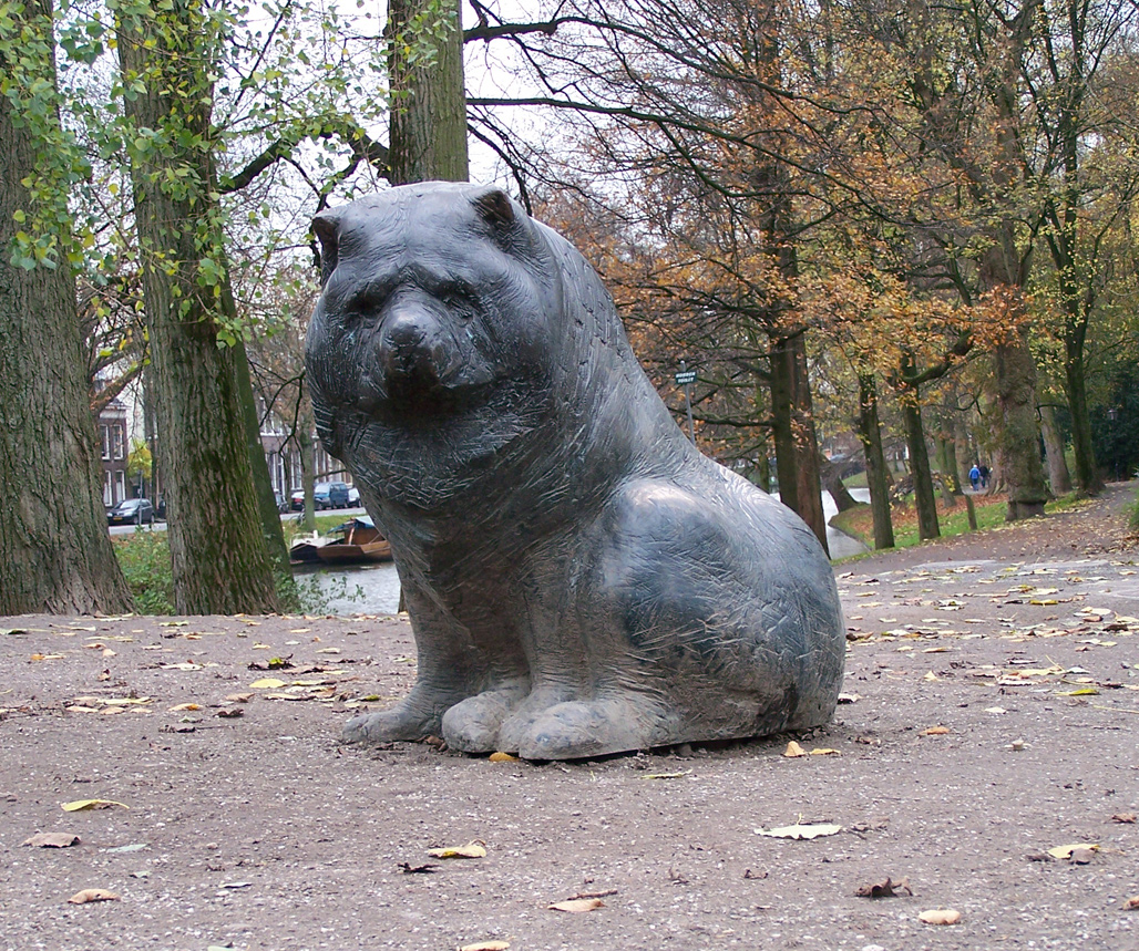 Joop Hekman's Chow Chow - Biru, placed at the end of the Nieuwe Gracht near the Abstederbrug in Utrecht. Where he could see it if he was looking out of his window. It was placed in 1997. He used a similar dog in his work De familie in Enschede, see Category:Het ei van Ko (De familie).